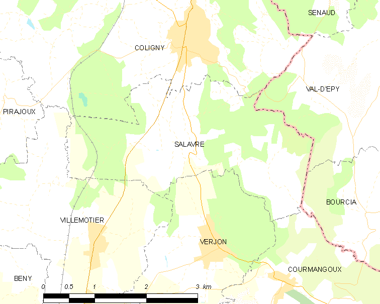 Map of French commune: Salavre Map commune FR insee code 01391.png